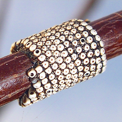 Eggs of Malacosoma neustria